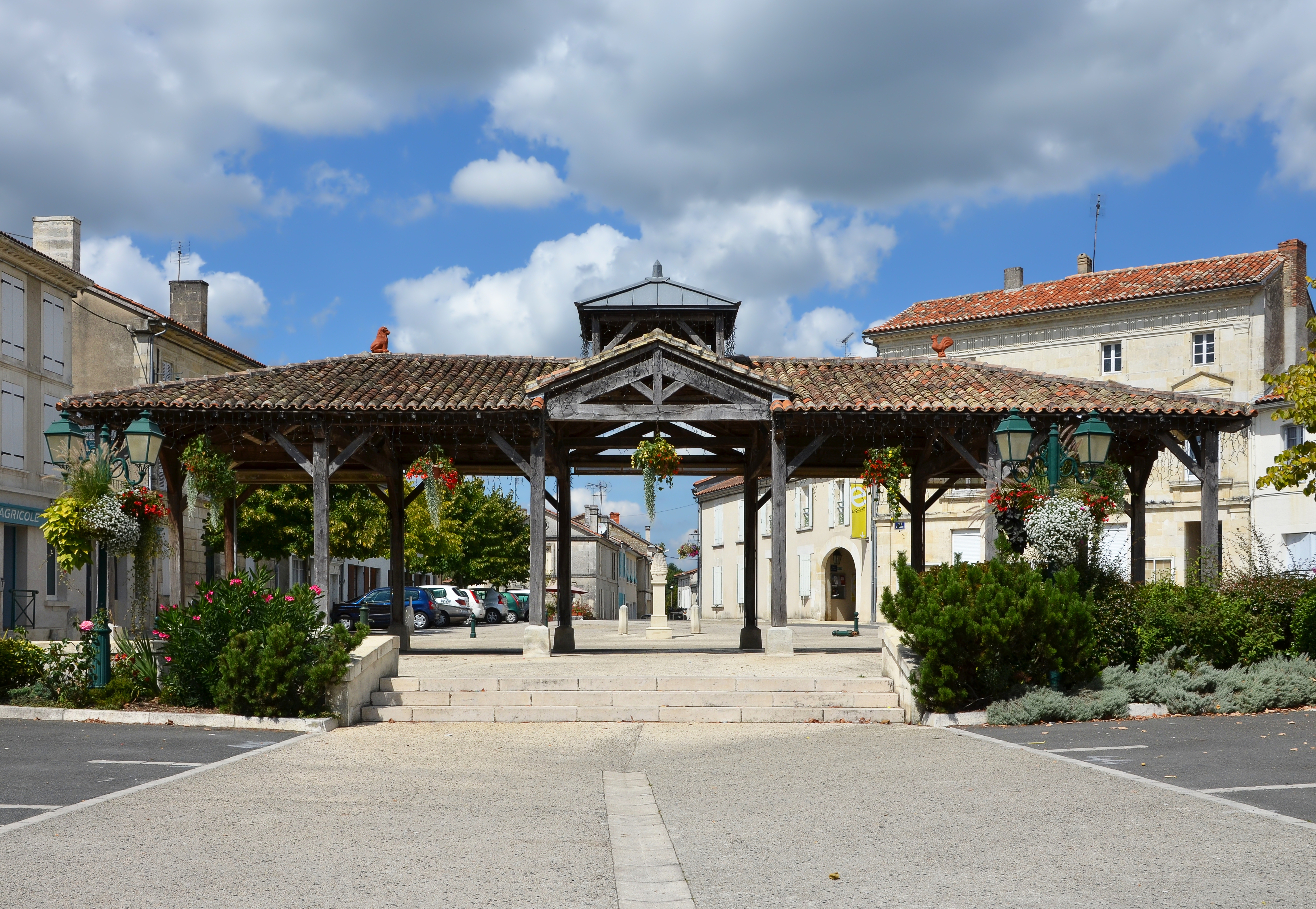 Market hall (repaired in 1808 and 1961) of Baignes-Sainte-Radegonde, Charente, France.